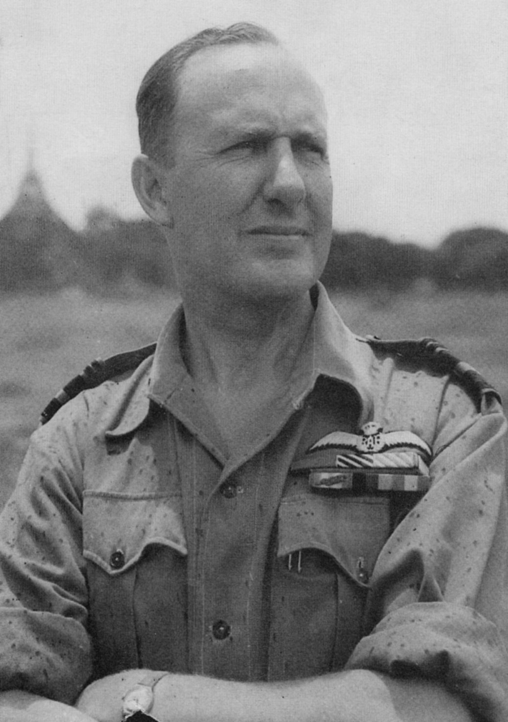 Photograph of Air Vice Marshal Stanley Vincent in 1945, while serving with the Royal Air Force.